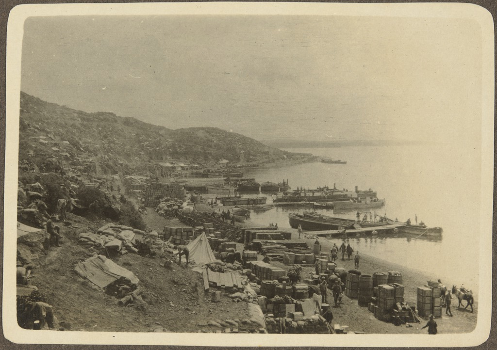 Beach scene, at Anzac Beach where cases are neatly stacked to provide natural cover and there is the general appearance of a well-organised though cramped army camp, May?, 1915